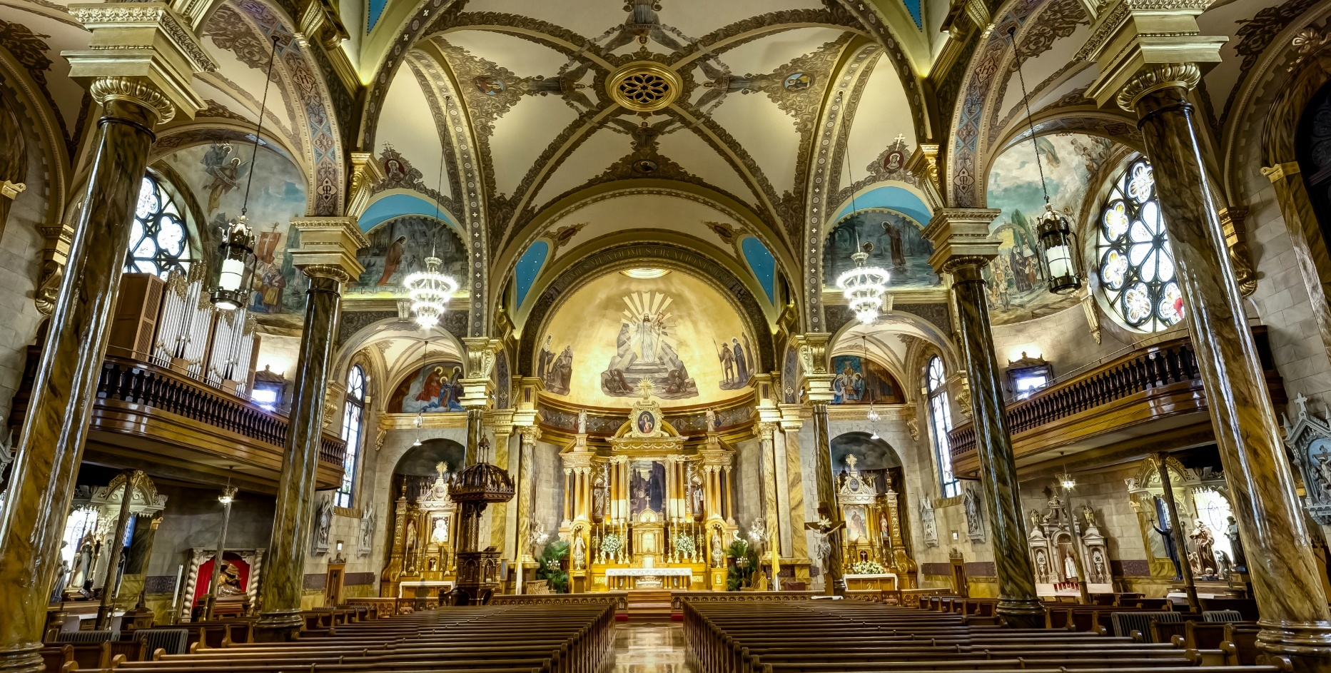 The baroque interior of St. John Cantius Church. Designed by Adolphus Druiding and completed in 1898, St. John Cantius Church took five years to build and is one of the best examples of sacred architecture in the city. The unique baroque interior has remained intact for more than a century and is known for both its opulence and grand scale—reminiscent of the sumptuous art and architecture of 18th century Krakow. The imposing 130 ft. tower is readily seen from the nearby Kennedy Expressway. In 2013, St. John’s completed an ambitious restoration, returning the lavish interior to its original splendor. Of all the “Polish cathedrals” in Chicago, St. John’s stands closest to downtown. Located in the heart of Chicago, one mile directly west of the famous Water tower on Chicago Avenue, St. John Cantius Church is easily accessible by car, bus, or subway.